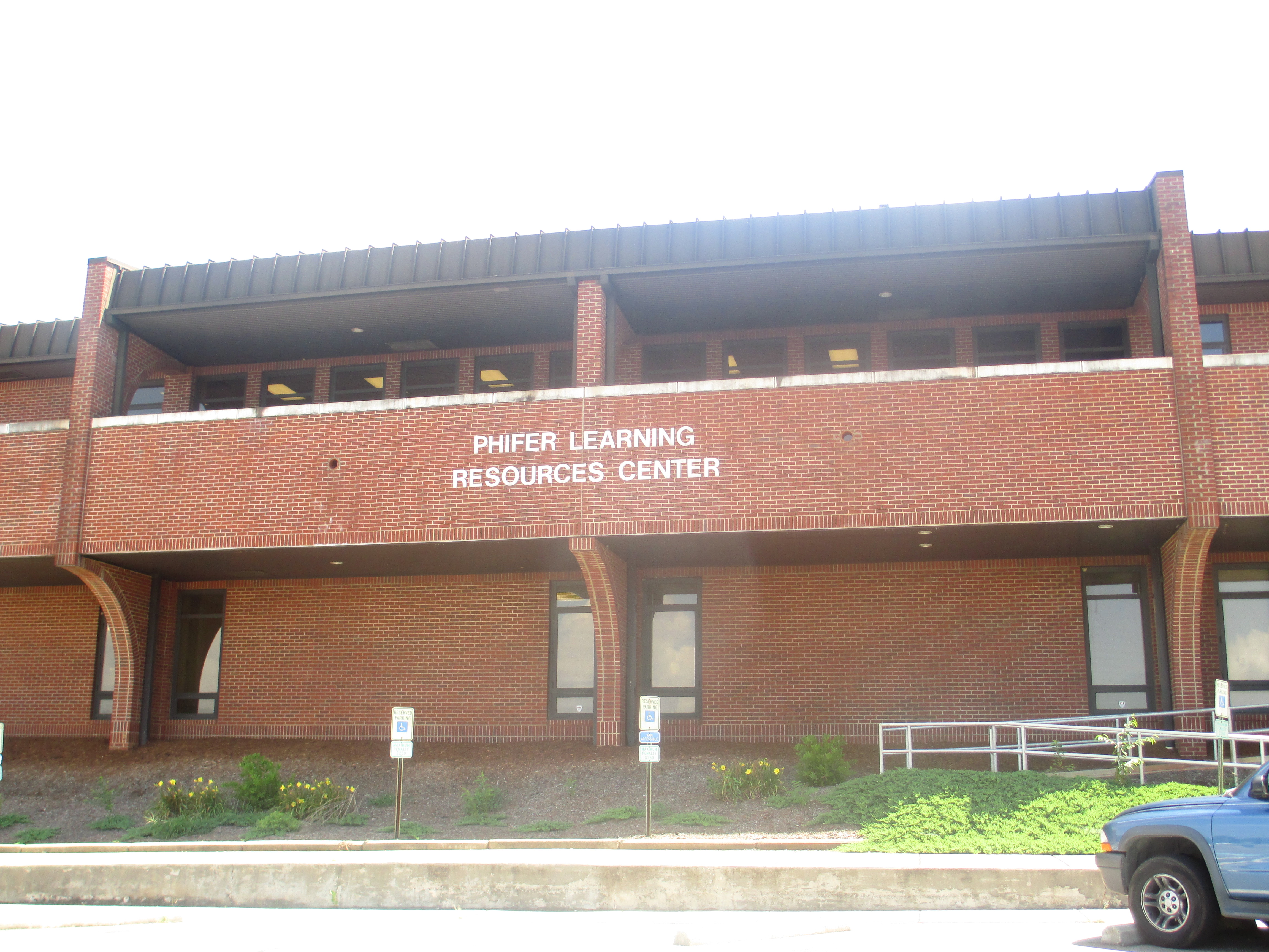 I took photo with Canon camera of Phifer Learning Resources Center at Western Piedmont Community College in Morganton, NC. Estern